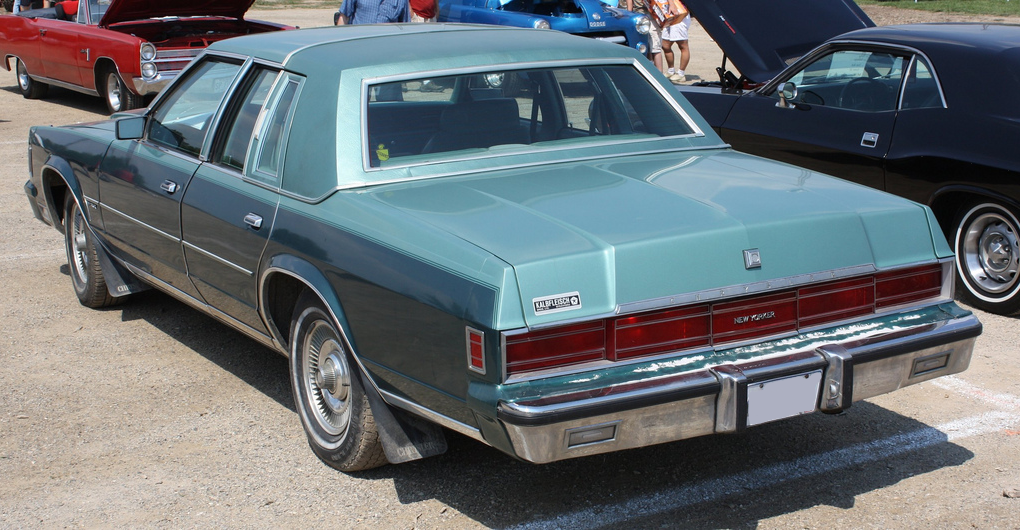 1979 R-body Chrysler New Yorker